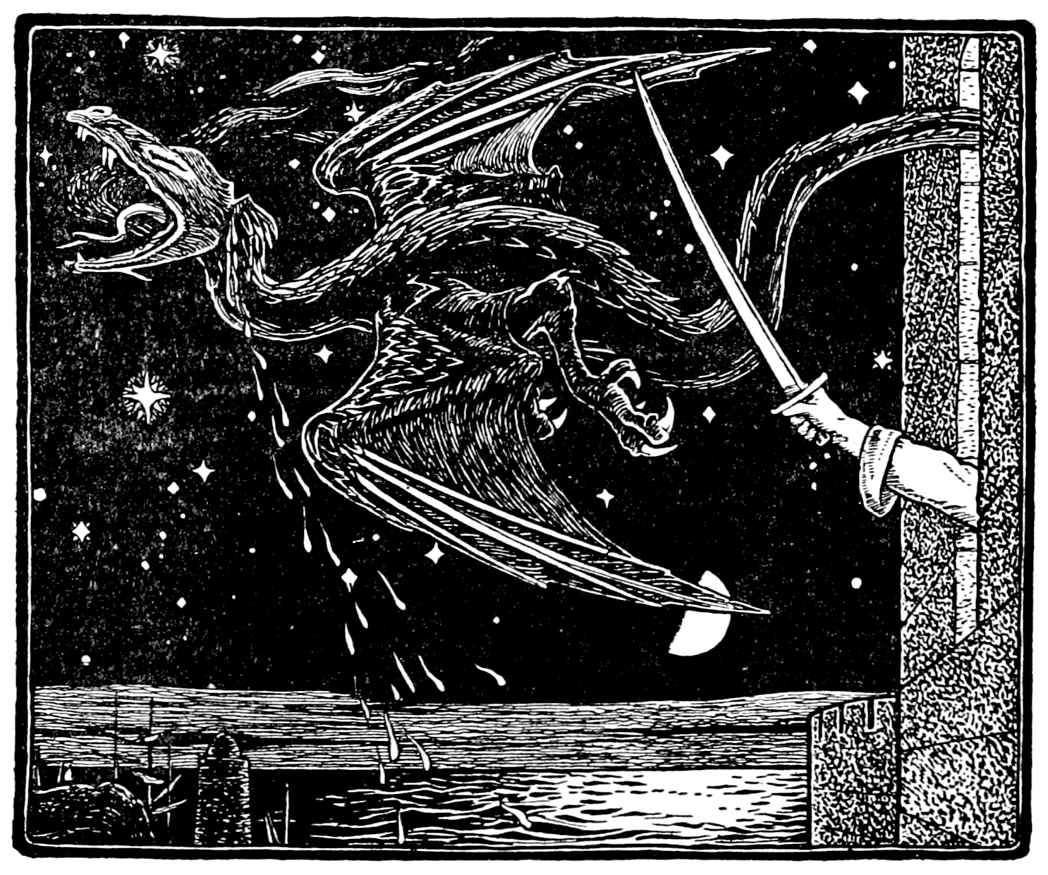 Illustration from a book of fairy tales from Europe, translated into english